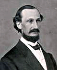 Benjamin Markley Boyer, US Representative from Pennsylvania